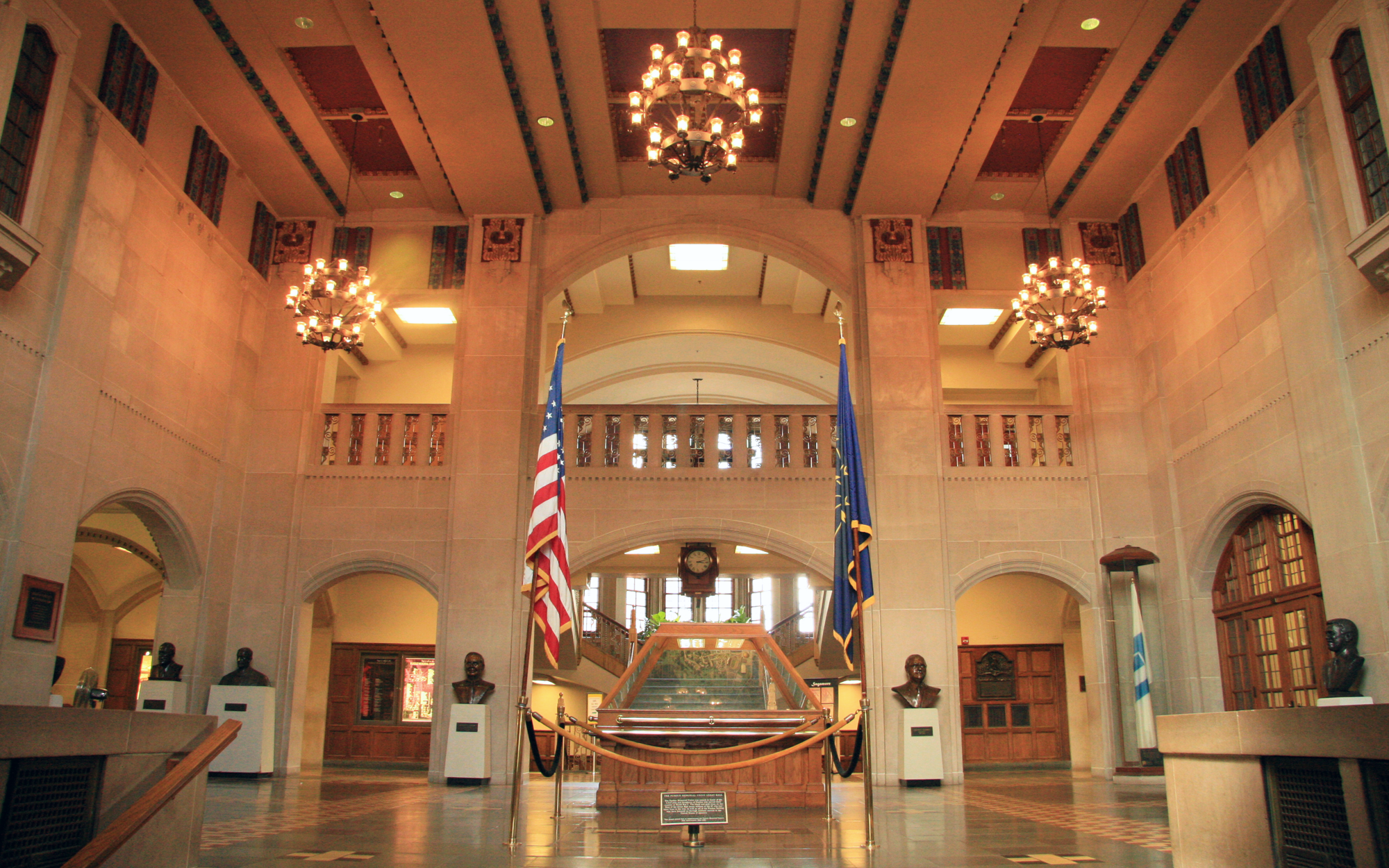 Looking north into the Great Hall of the Purdue Memorial Union at Purdue University.